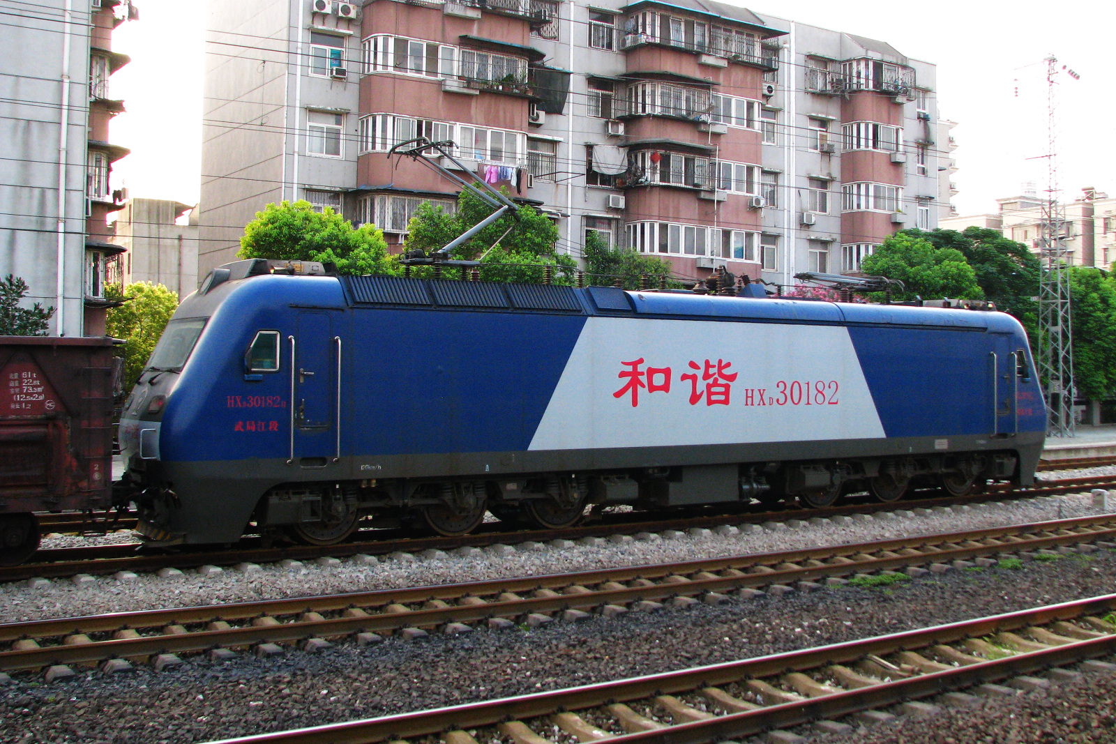 China Railways HXD3 0182 electric locomotive in Wuhan